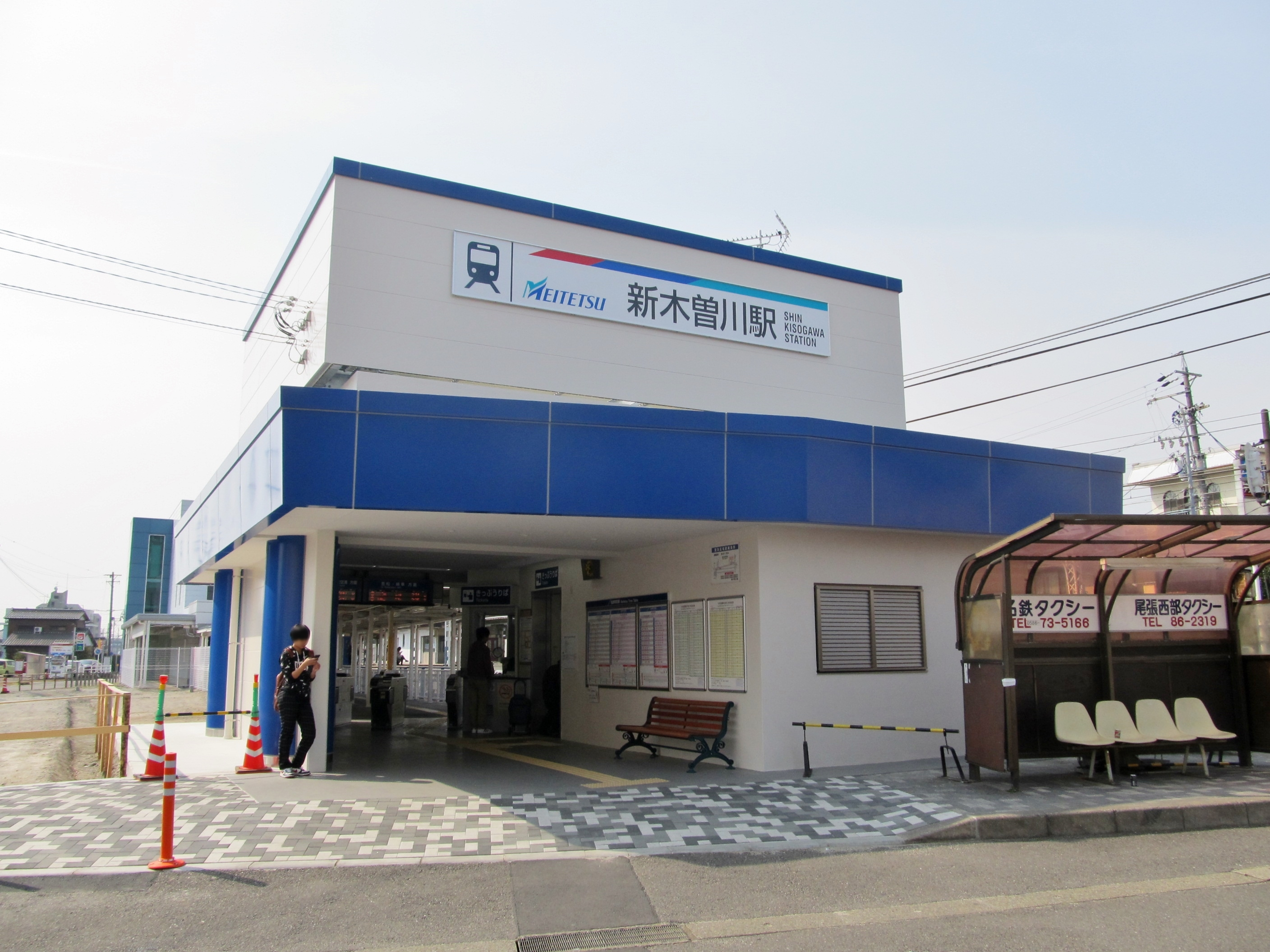 Nagoya Railroad Nagoya Main Line Shin Kisogawa Station Building